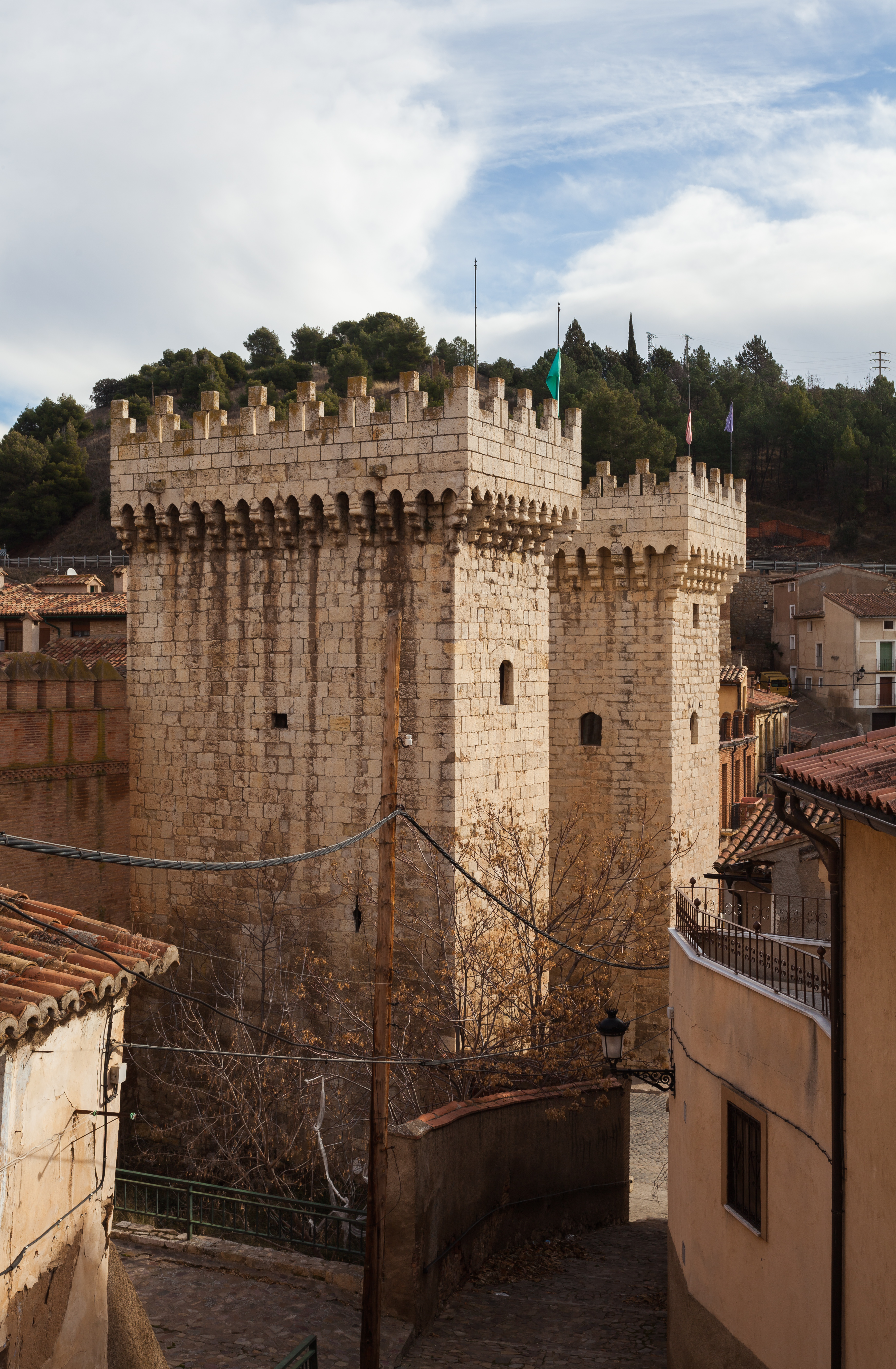 Low Gate, Daroca, Zaragoza, Spain